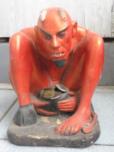 Exu do Lodo